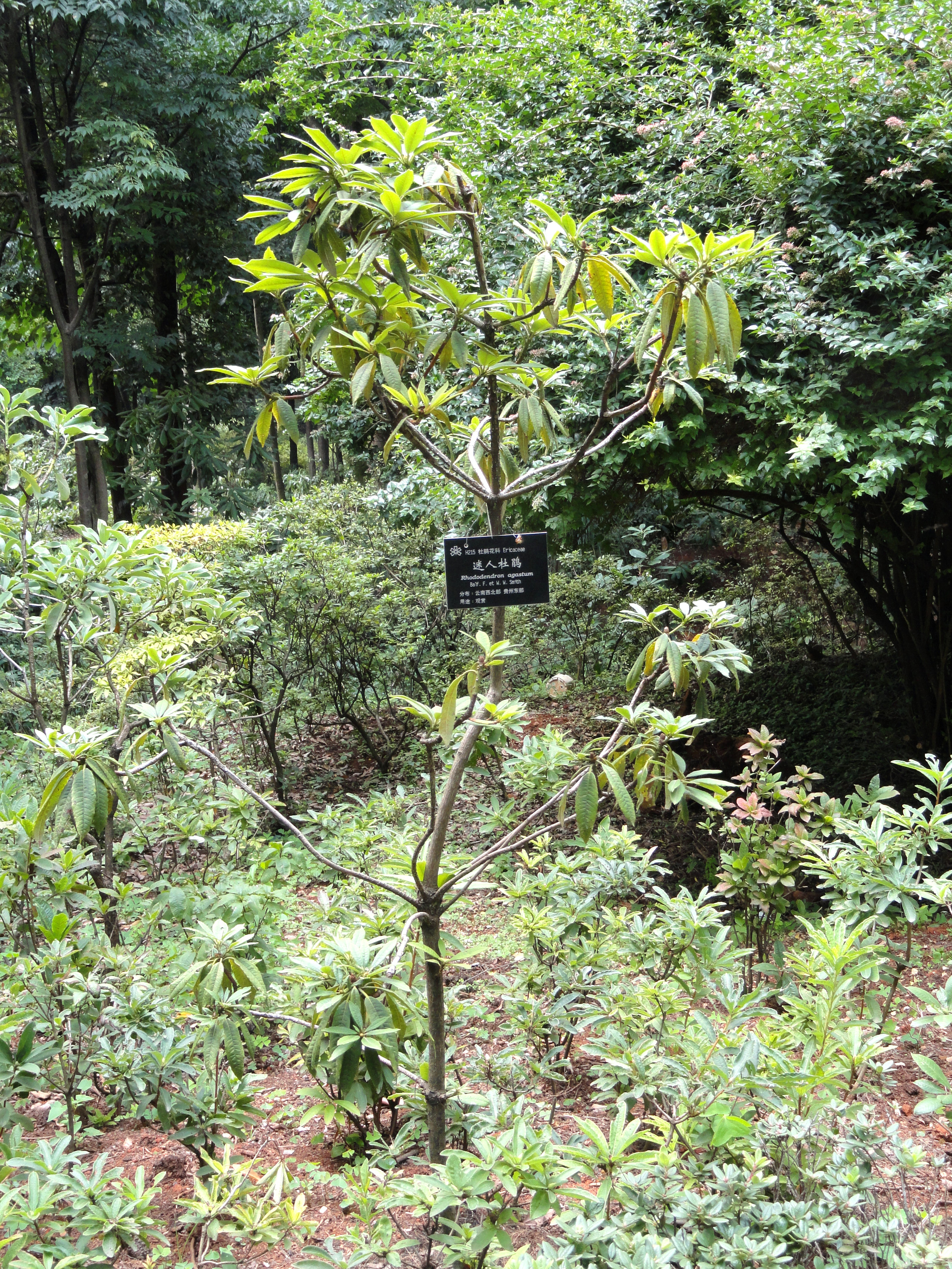 Rhododendron specimen in the Kunming Botanical Garden, Kunming, Yunnan, China.